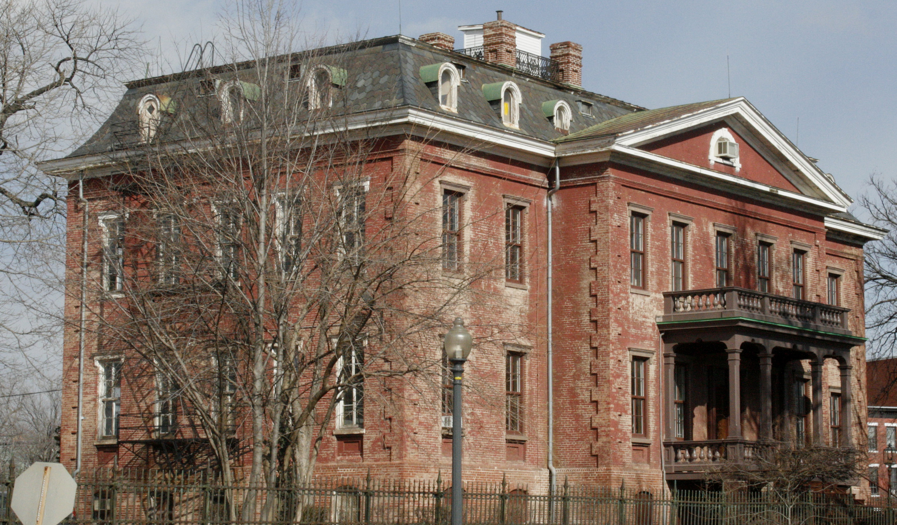 This large brick building on Capitol Hill served as the Naval Hospital from 1866 to 1906. It sits on a triangular lot, between 9th and 10th Streets, defined by Pennsylvania Avenue on the north. The building faces south, with an entrance on E Street, and is within the vicinity of the current Marine Barracks and the Navy Yard. Prior to the construction of this building, the Navy had used as hospital a rented building near the Navy Yard (1811-1843); a facility within the confines of the Marine Barracks until the Civil War; and a portion of the Government Hospital for the Insane (St. Elizabeths Hospital) during the War. Designed to accommodate 50 patients, the new hospital had good ventilation and running water supplied by the city, and was furnished with gas for lighting. After serving the naval personnel for four decades, the hospital moved to its newly constructed facility at Observatory Hill, 23rd and E Streets, NW, (now headquarters of the Bureau of Medicine and Surgery). In 1922, the building became the Temporary Home for Veterans of All Wars. The property is still owned by the federal government but its jurisdiction was transferred to the District of Columbia in 1962. Currently, the building is vacant and in need of serious restoration. Thanks to the efforts of the Friends of the Old Naval Hospital and other concerned residents, the DC government's Office of Property Management is moving ahead with plans to restore the building. If approved by the city, the 140-year old structure may become the Hill Center, a facility for education and community life on Capitol Hill.